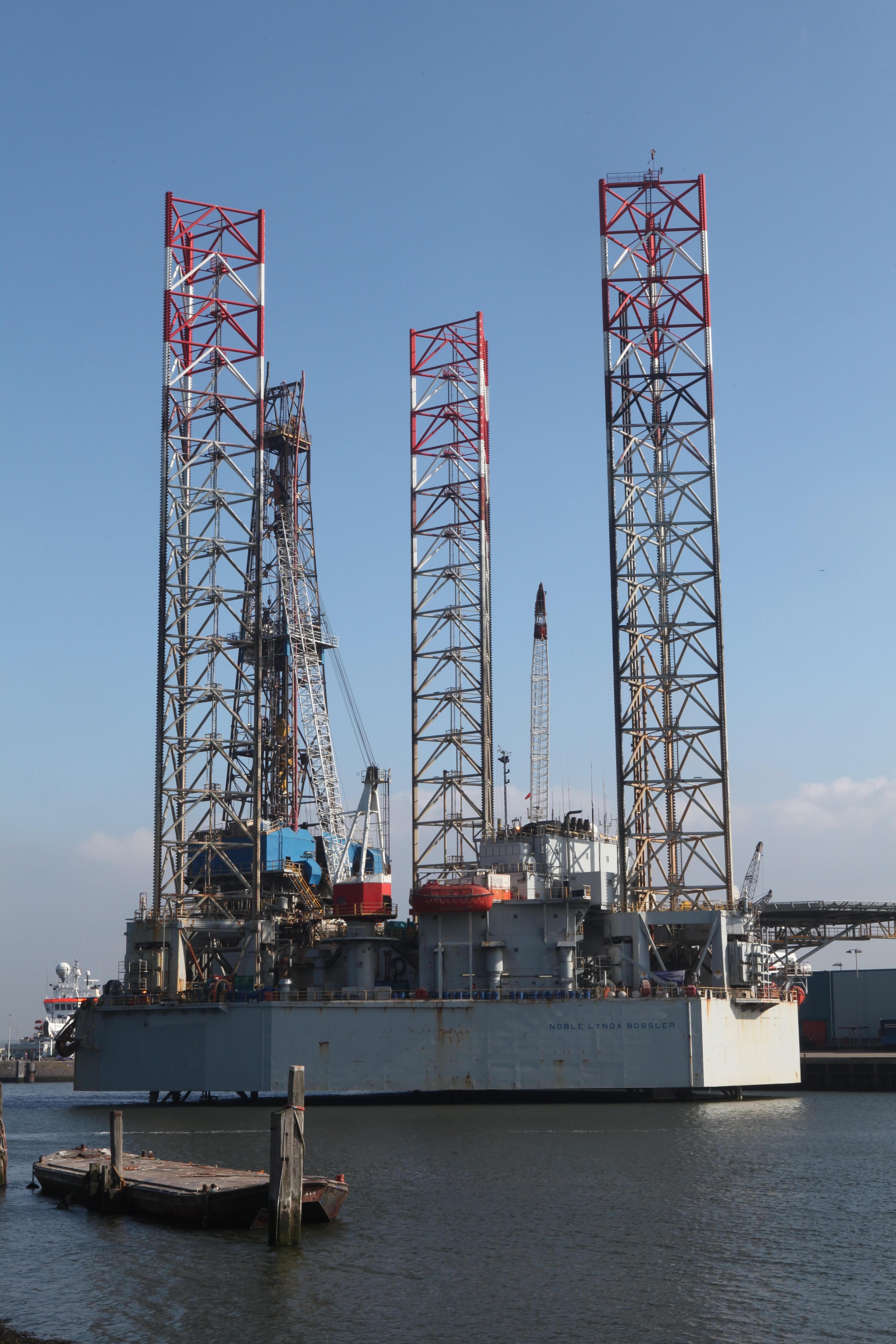 Noble Lynda Bossler a Jackup drilling rig build by CNIM, La Seine sur Mer, France in 1982